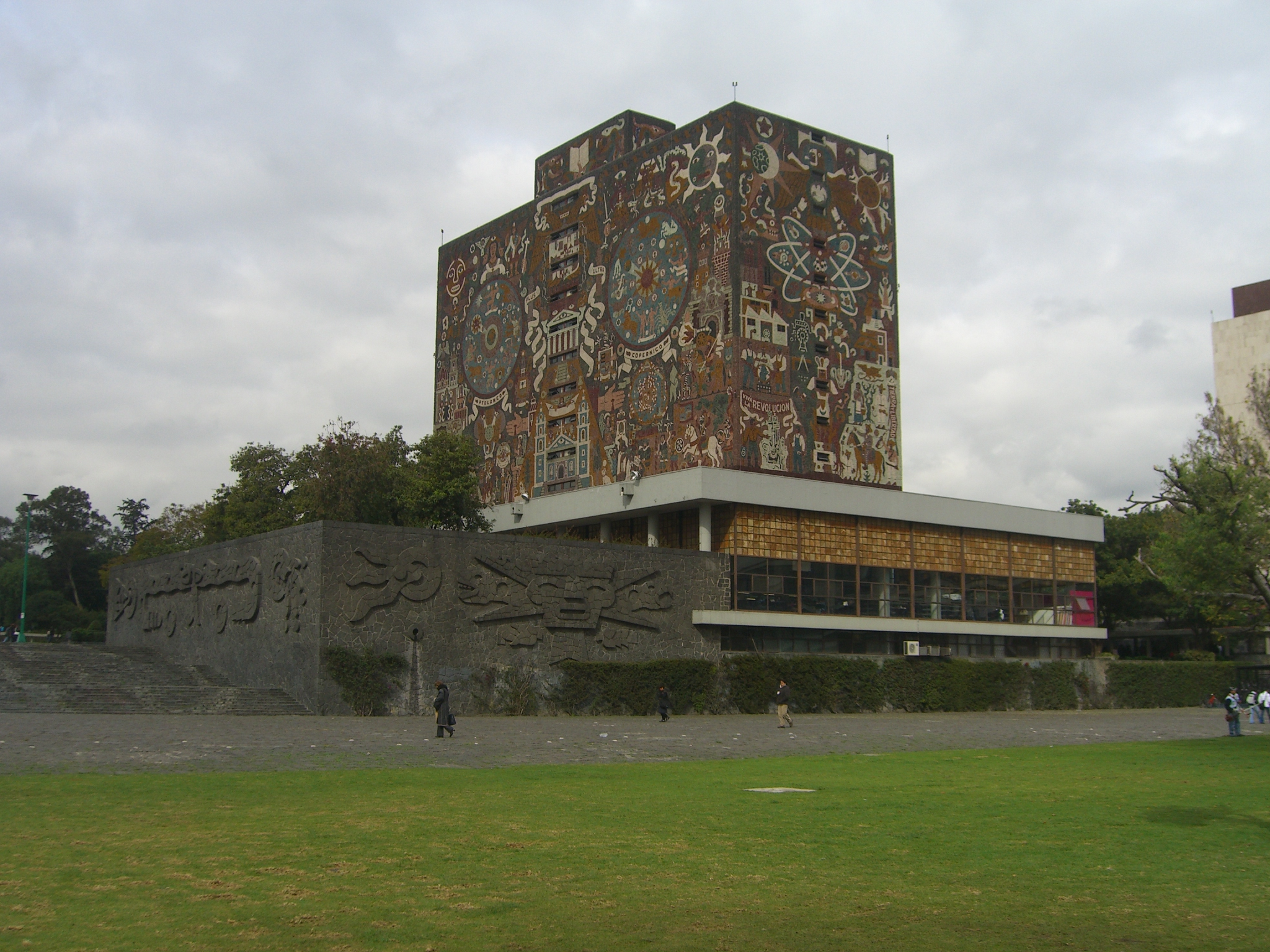 Central library of the National Autonomous University of Mexico on the campus of Mexico City. (built by Juan O'Gorman